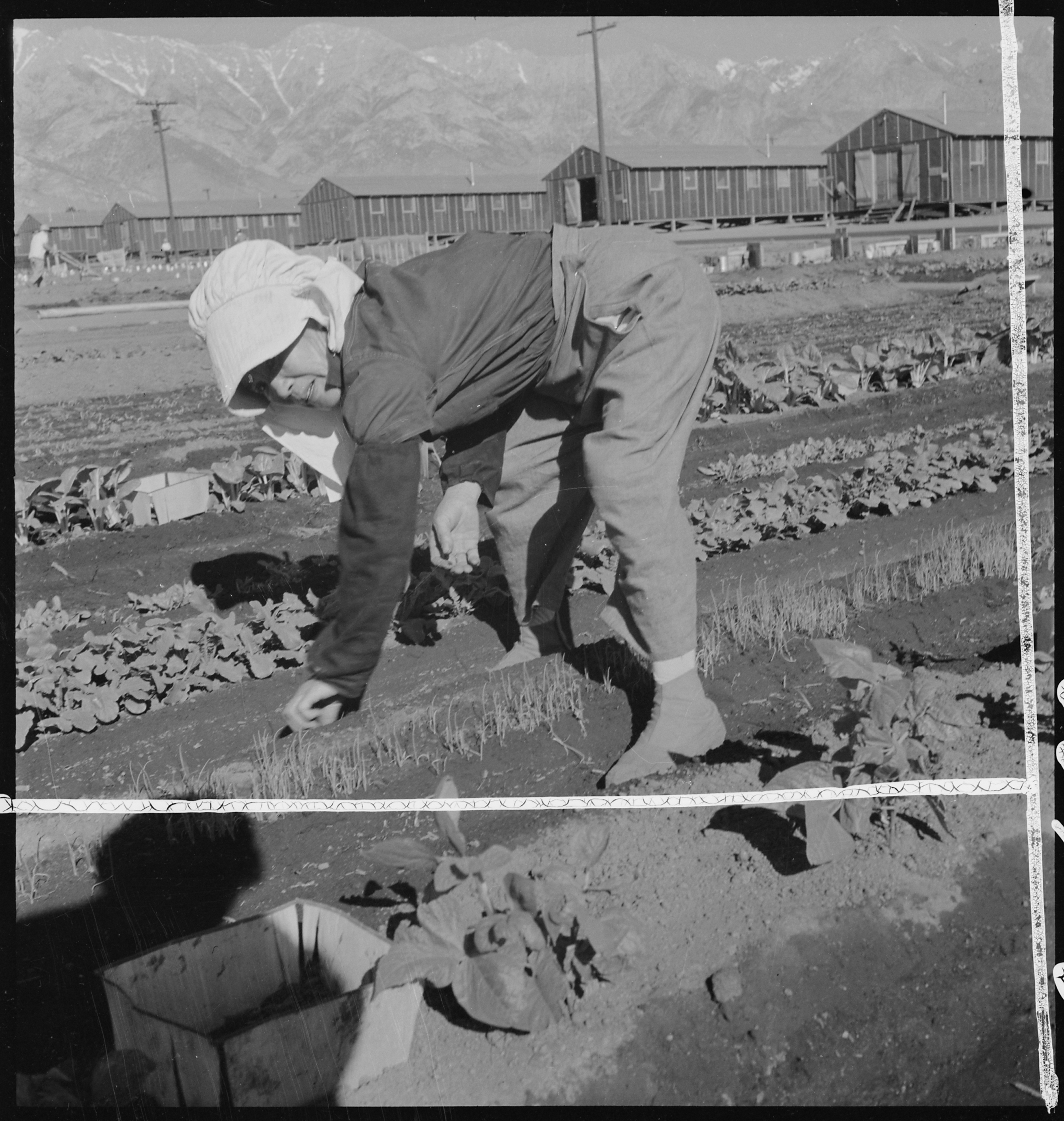 Scope and content: The full caption for this photograph reads: Manzanar Relocation Center, Manzanar, California. Evacuee in her "hobby garden" which rates highest of all the garden plots at this War Relocation Authority center. Vegetables for their own use are grown in plots 10 x 50 feet between barrack rows.